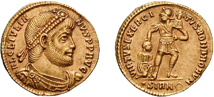 Flavius Claudius Julianus. 361-363 AD. AV Solidus (4.28 gm). Sirmium mint. :FL CL IVLIA-NVS P P AVG, pearl-diademed, draped and cuirassed bust right :VIRTVS EXERCI-TVS ROMANORVM, soldier standing right, head left, holding trophy over left shoulder and placing hand on head of kneeling captive; *SIRM (wreath). RIC VIII 95; Depeyrot 21/1; Cohen 78. Near EF. Schmidt Collection. Ex Münzen und Medaillen Liste 597 (June 1996), no. 34.